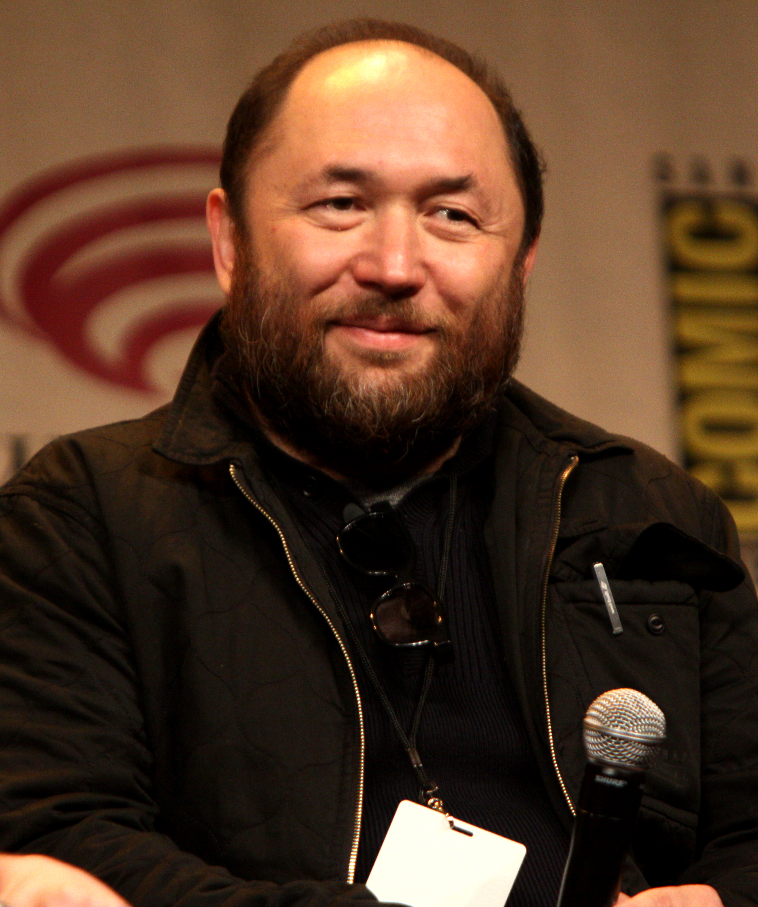 Timur Bekmambetov speaking at Wondercon 2012 in Anaheim, California on March 17, 2012.